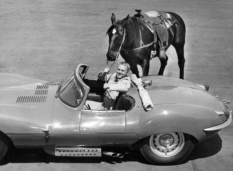 Publicity photo of Steve McQueen with his horse, Doc, and his Jaguar XK-SS sports car.